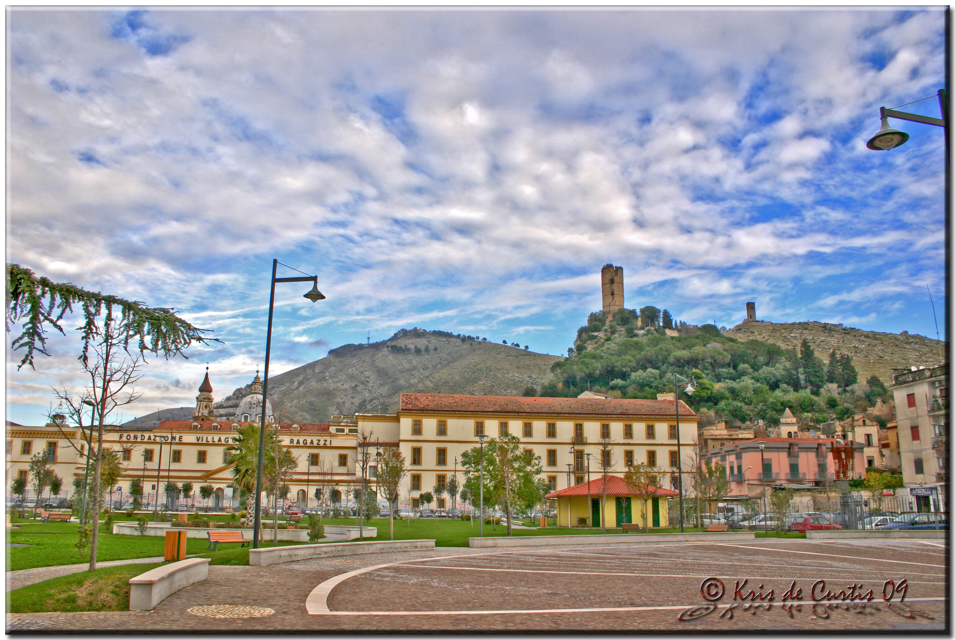 Maddaloni, my City. View of a foreshortened from the place where I currently work. ________________________________________________________________________ Maddaloni, ancient town in Campania (it was inhabited since copper age), is positioned on the slopes of Tifatini Mounts and has an half circle shape. It is overlooked by the Medieval Castle and by the Longobard tower. From the St. Michael mount, whose name is derived from the church name, it is possible to admire the town and the Great Valley where there's the Carolingian aqueduct and Vanvitellian Bridges . You can see also the neapolitan coast with the majestic Vesuvius and Capri island . (when there's a clear sky). ________________________________________________________________________ Maddaloni, la mia città. Scorcio dal posto dove lavoro attualmente. Maddaloni, antica città della Campania (fu abitata fin dall'età del rame), adagiata a semicerchio alle pendici dei monti Tifatini, è sovrastata dal Castello Medioevale e dalla Torre Longobarda. Dal monte S. Michele, che prende il nome dalla omonima chiesa, si gode un'ampia vista sulla città, sulla Grande Vallata dove si trova l'acquedotto Carolino e i Ponti di Vanvitelli , ed all'orizzonte, anche sul panorama della costa Napoletana con il maestoso Vesuvio e l'Isola di Capri (nelle giornate abbastanza nitide). ________________________________________________________________________ Best View: Large On Black .